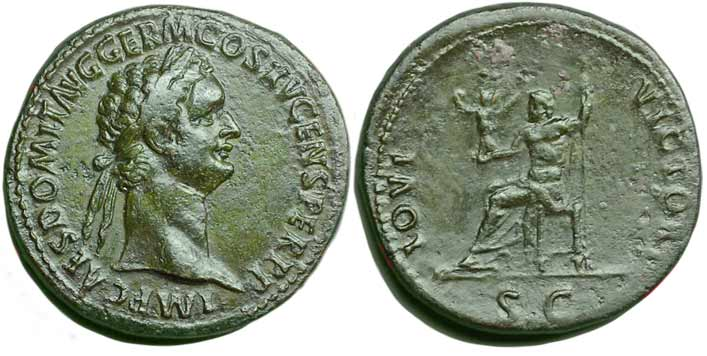 Obverse: IMP CAES DOMIT AVG GERM COS XV CENS PER P P laureate head of Domitian facing right; Reverse: IOVI VICTORI S C in exergue Jupiter seated left holding Victory in extended right hand; Size: 24.78 grams.; Reference: RIC II 388; BMCRE 439; BN 476; Cohen 314.